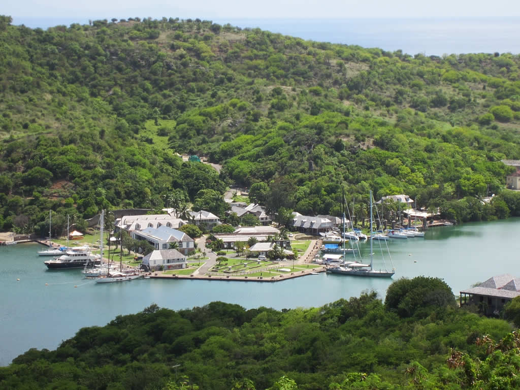 Nelson's Dockyard was built between 1743 and 1889 at English Harbour on the south side of Antigua.